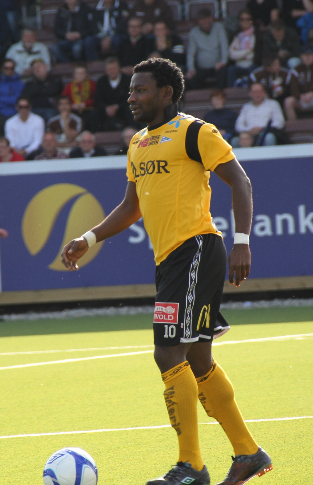 IK Start (Norway) player in match against Mjøndalen IF. May 20, 2012.